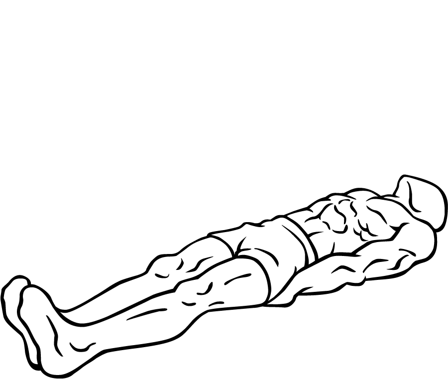 an exercise of abs